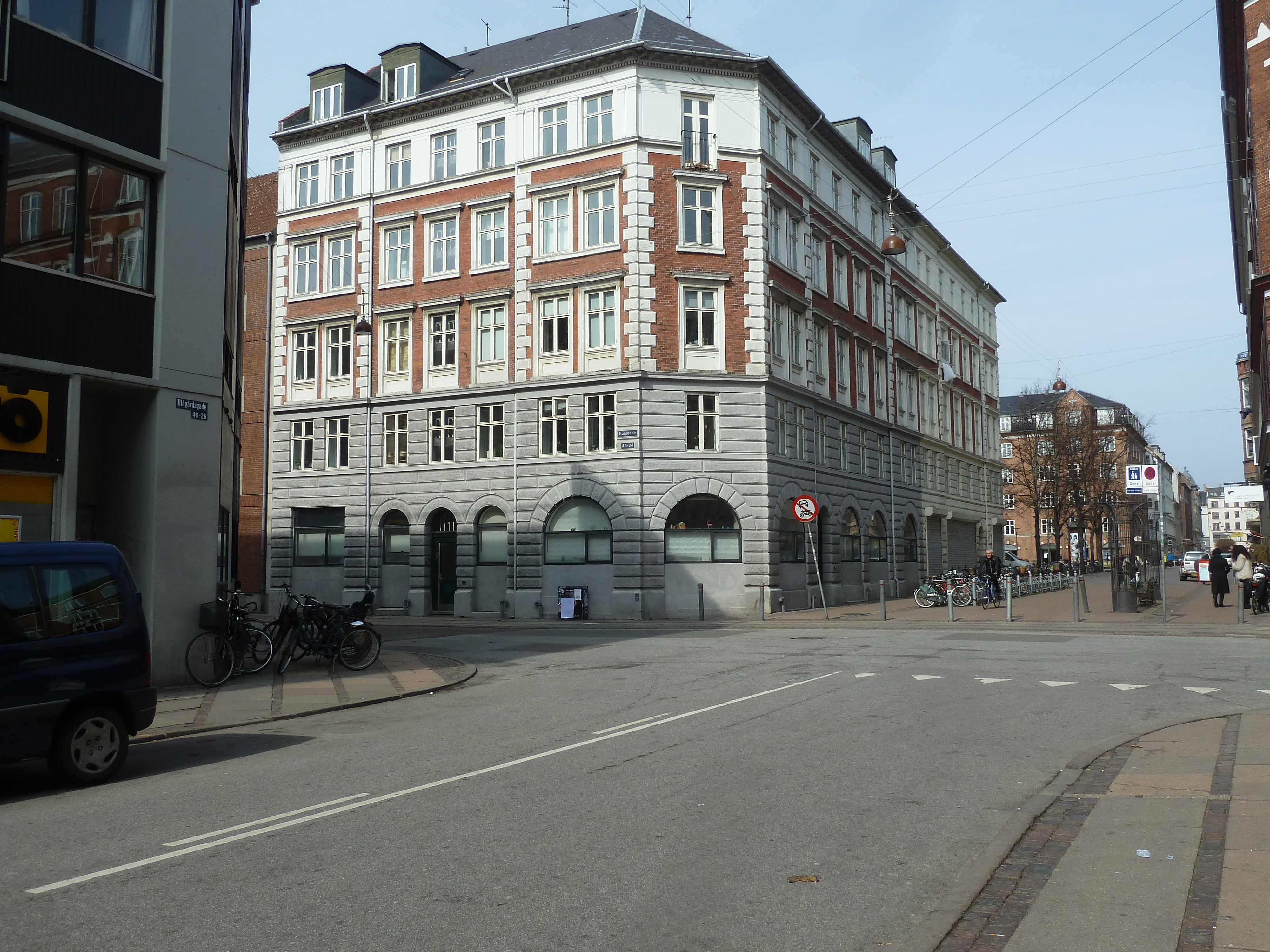 Blågårdsgade in the Nørrebro district of Copenhagen, Denmark